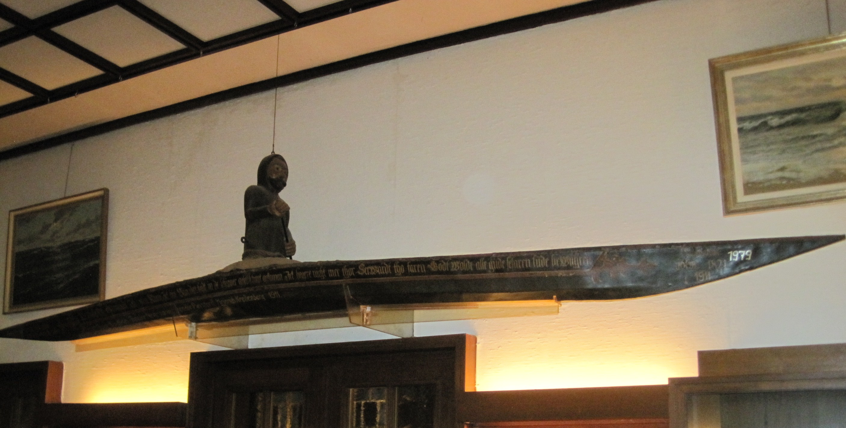 Kajak des frühen 17. Jahrhunderts, geborgen von Walfängern bzw einer Grönlandexpedition (1605/06) im Nordatlantik. Schiffergesellschaft in Lübeck.